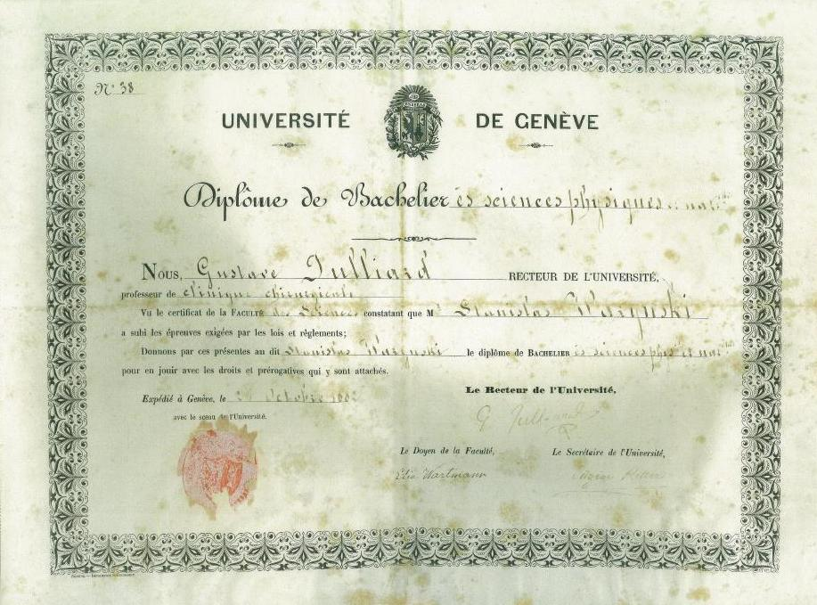 Diploma of Stanislas Warynski from University of Geneva in 1886